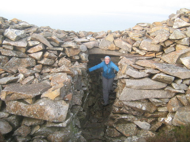 The back door of Tre'r Ceiri A remarkable feature of the fort is this ancient 'man-sized' hole in the inner wall, leading to the area between the two walls. At this point the inner wall is about 10 metres thick.